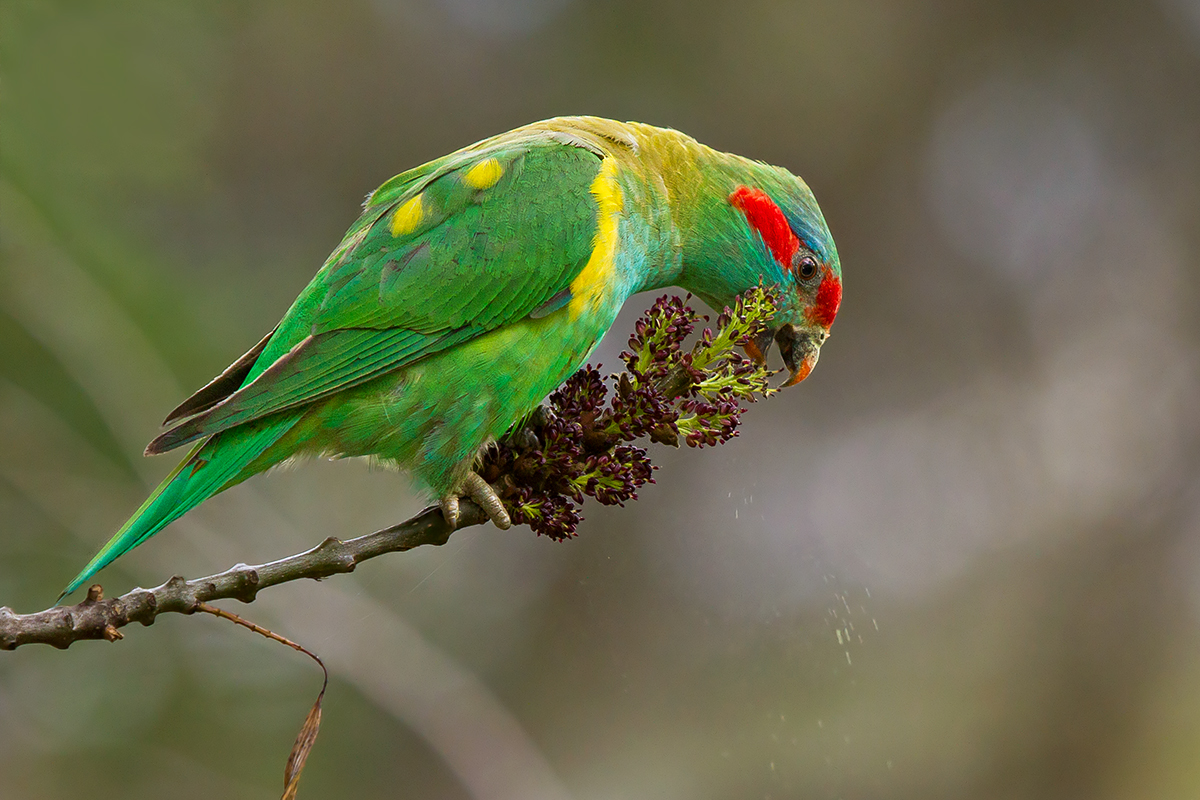 A Must Lorikeet feeding on desert Ash fruit at Kangaroo Flat, Bendigo, Victoria, Australia.